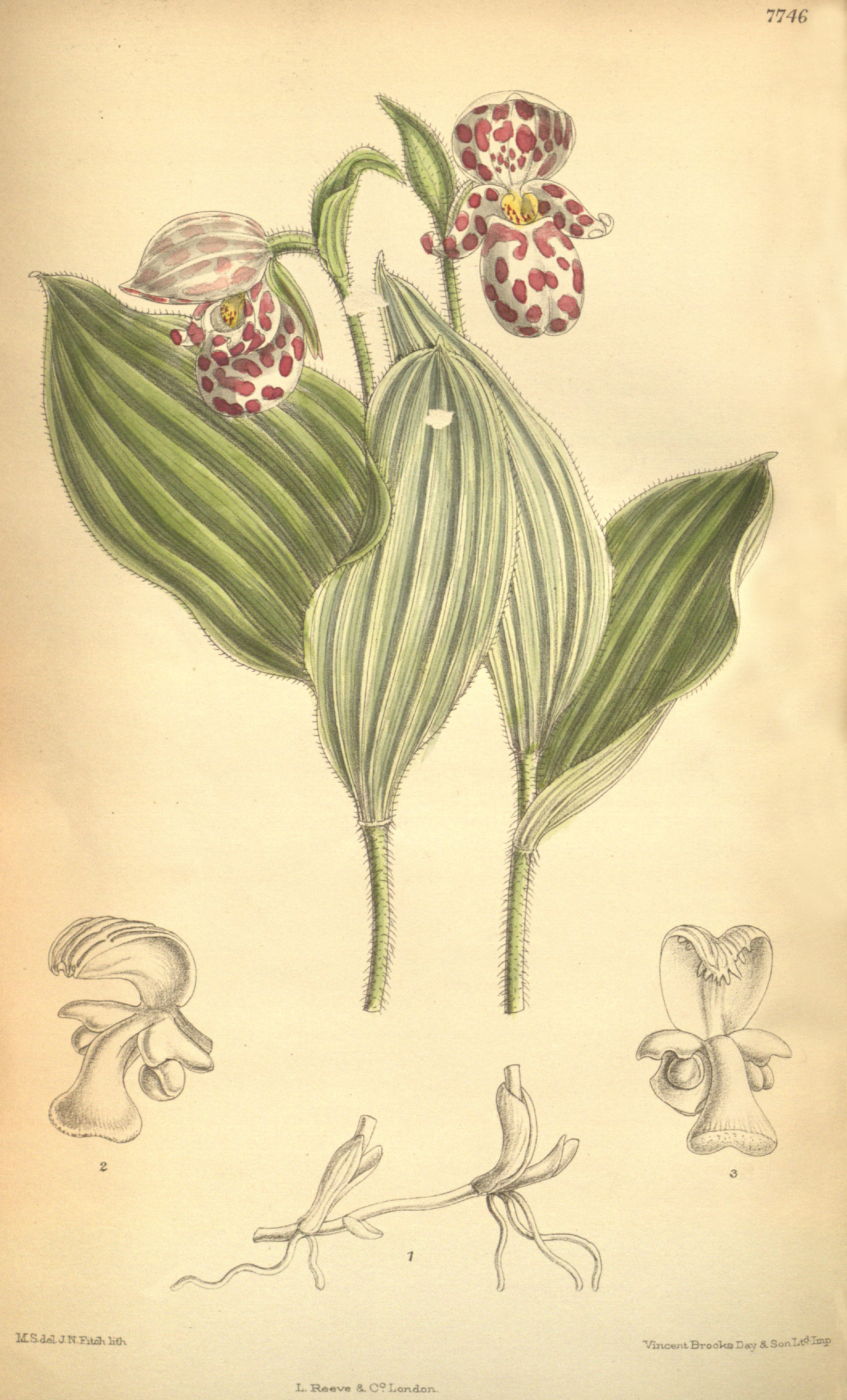 Illustration of Cypripedium guttatum